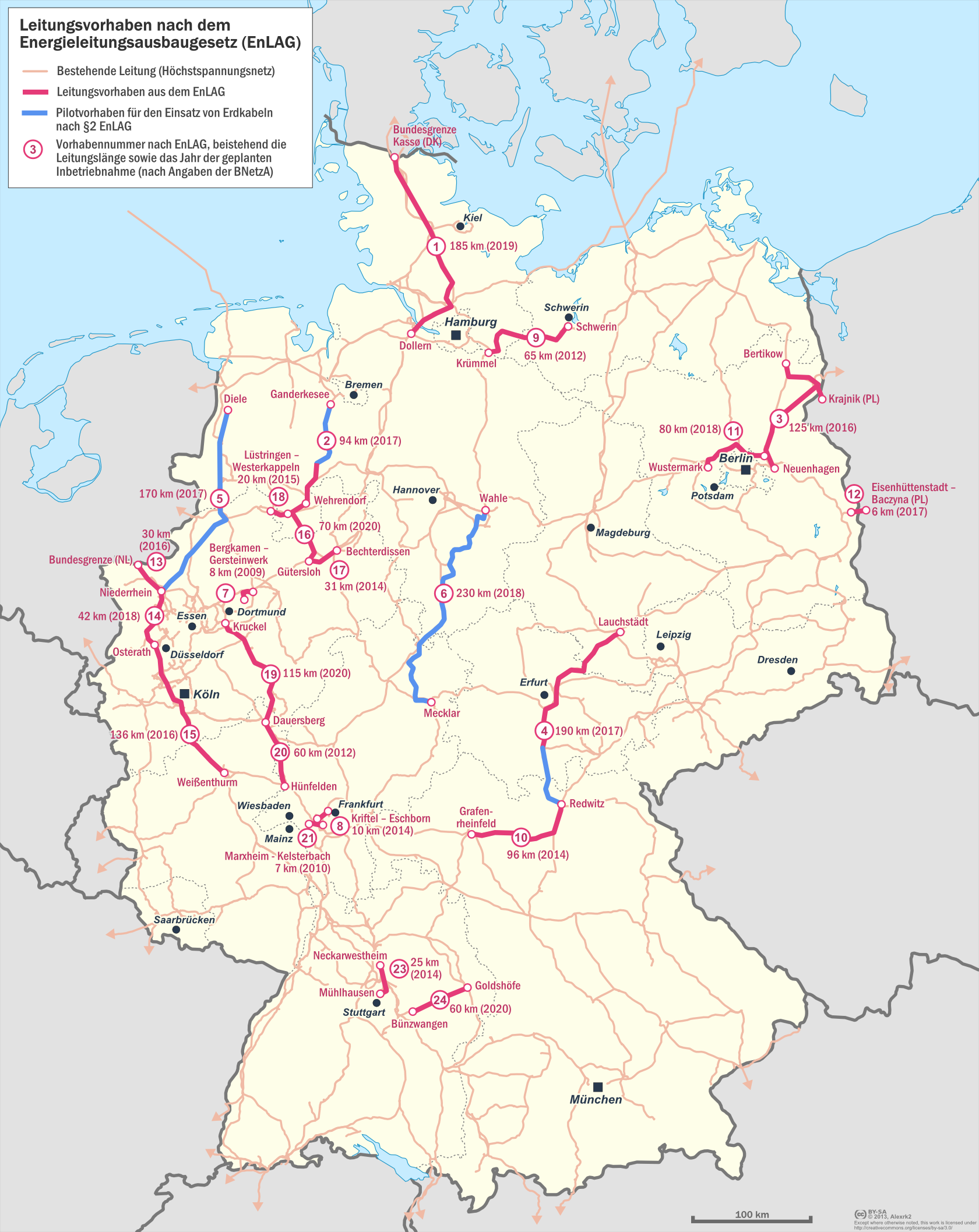 Planned high-voltage grid expansion in Germany according to the Power Grid Expansion Act of 2009 (EnLAG, as at 23 June 2013)